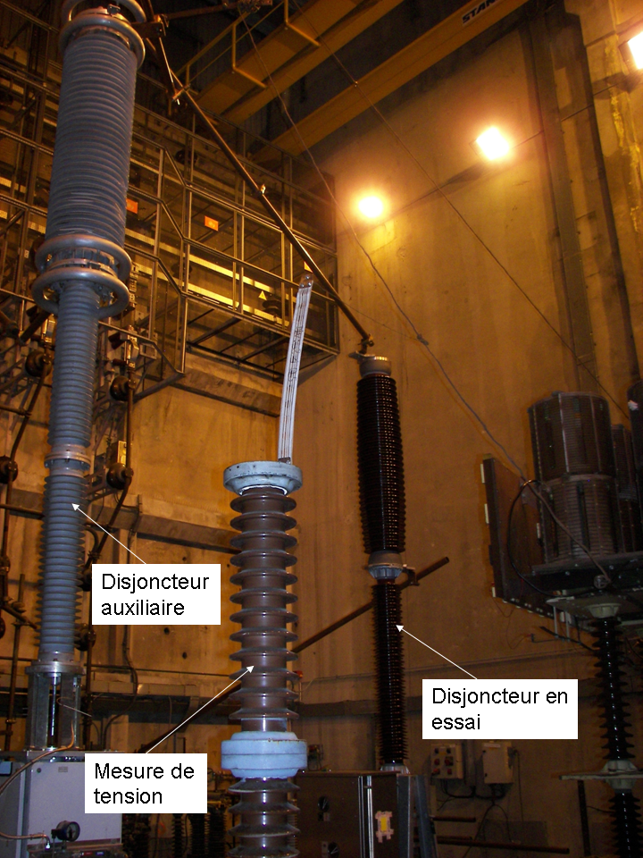 high-voltage circuit breaker during hgh-power tests in CERDA laboratory (France)